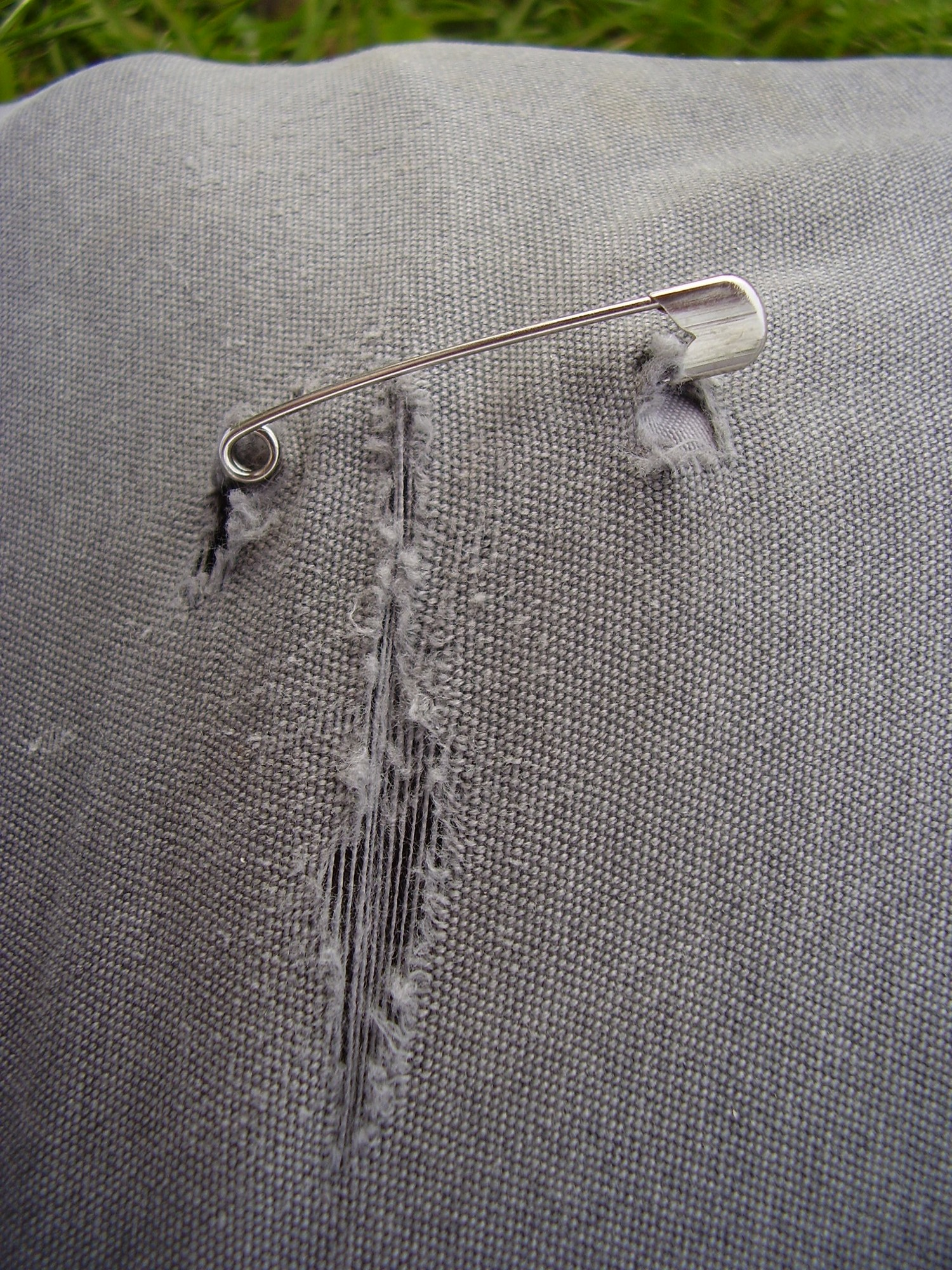 Safety pin in trousers